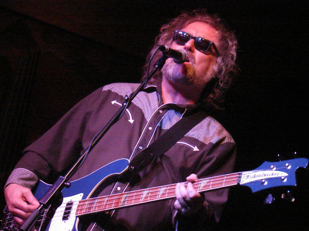 Scott McCaughey at Ramshead Annapolis 2007-03-25